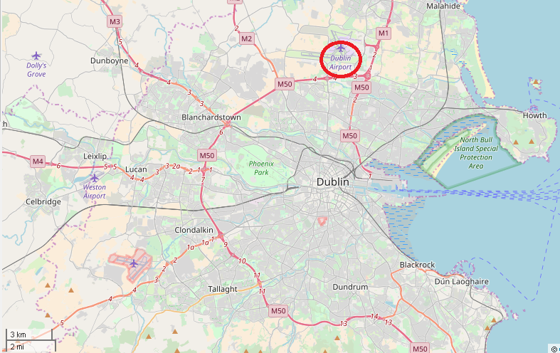 Dublin Airport in relation to Dublin City